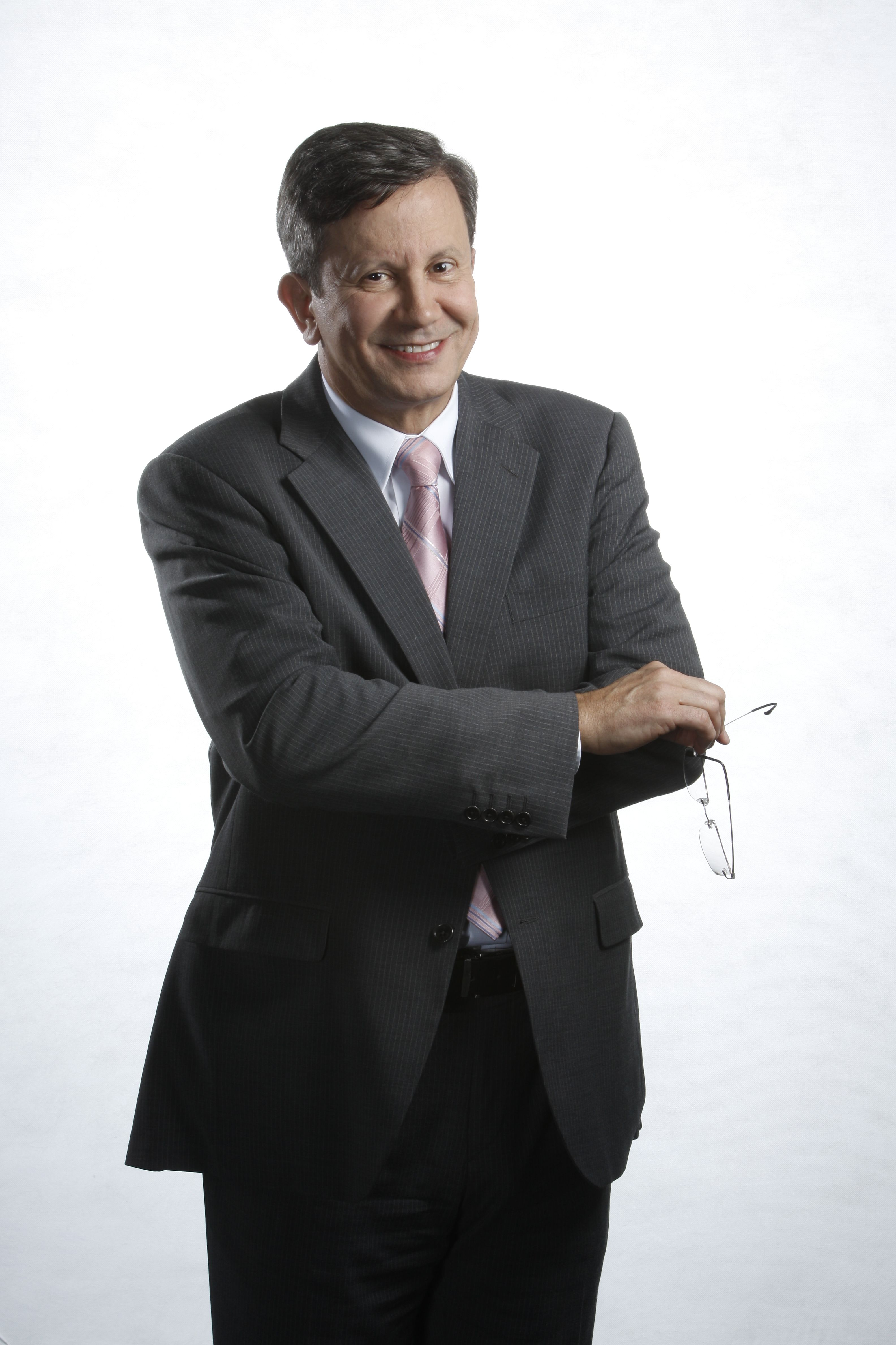 Photo of Elpidio Donizetti, Brazilian jurist